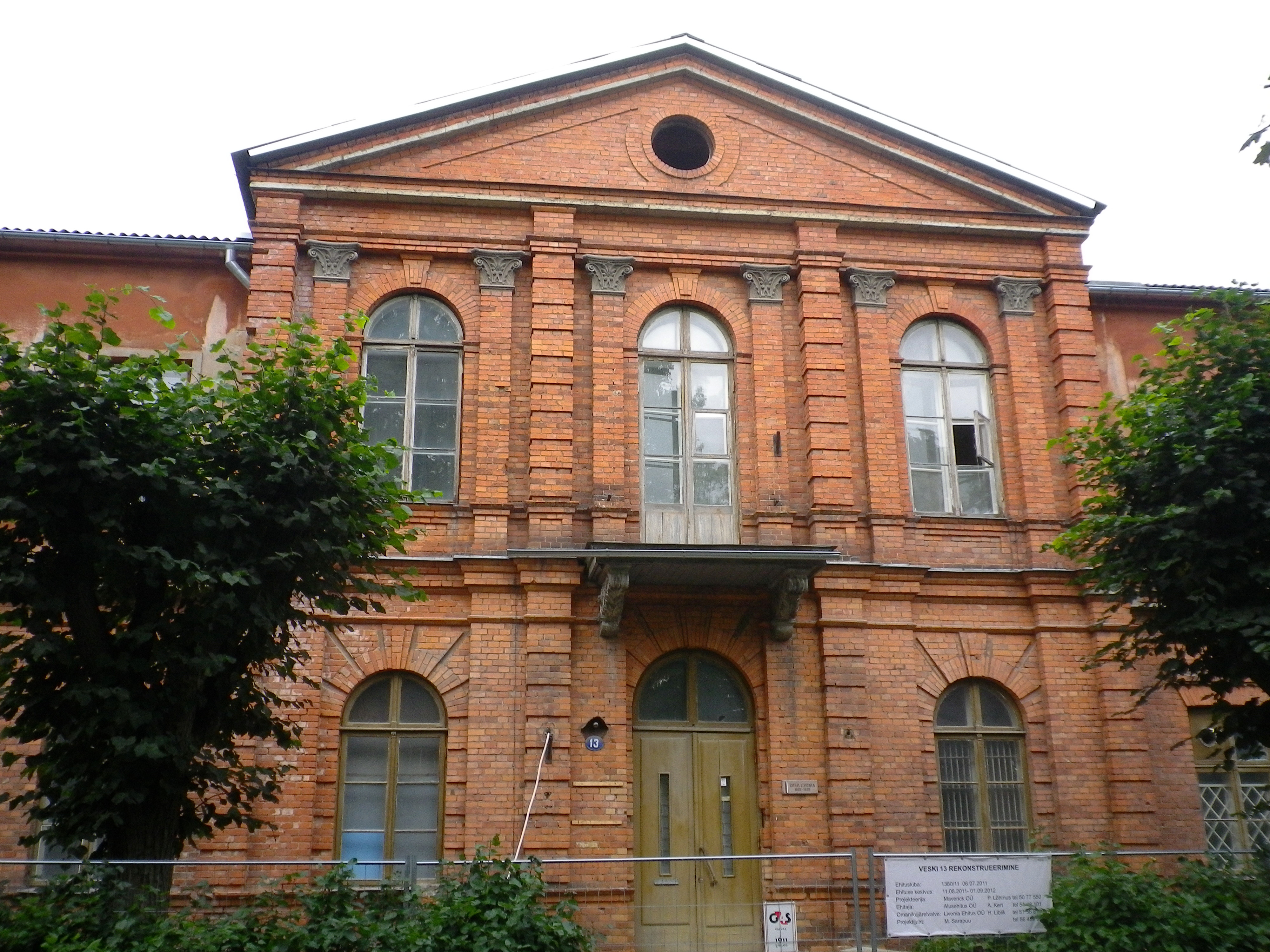 13 Veski St, Tartu